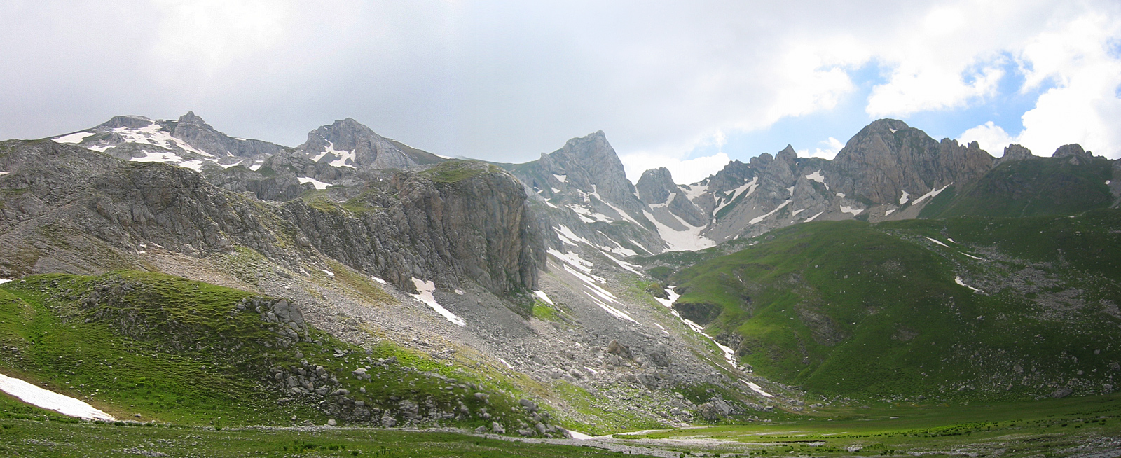 The Korab Mountain range seen from the Panair plain north-east of the peak in Albania. The top (Maja e Korabit) is on the far left showing his soft side